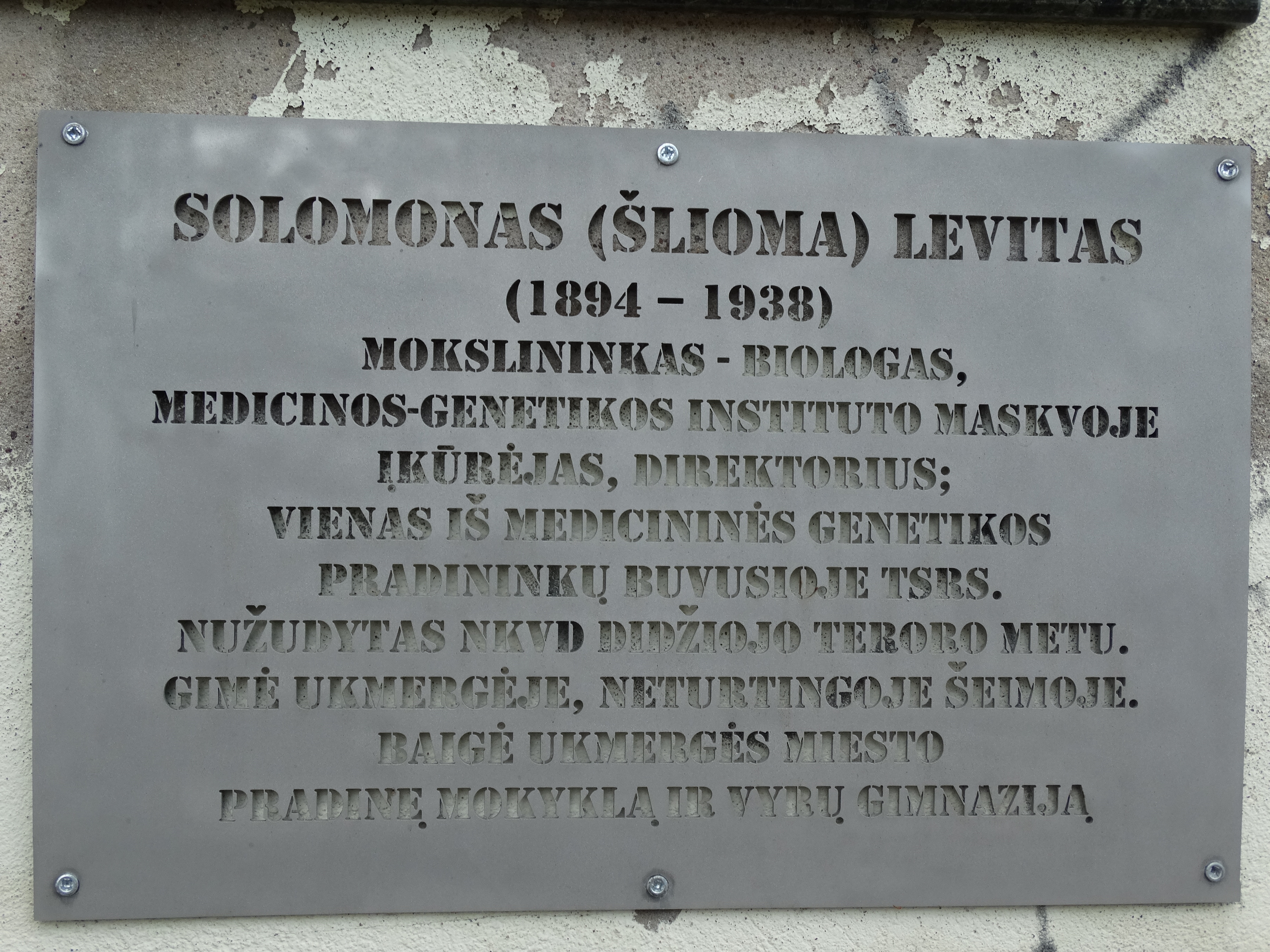 Memorial plaque, Solomon Levit, Ukmergė, Lithuania